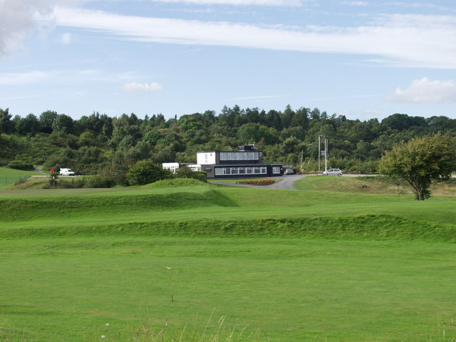 Llanymynech Golf Club clubhouse To the west of the quarry on Llanymynech Hill is the Golf club.